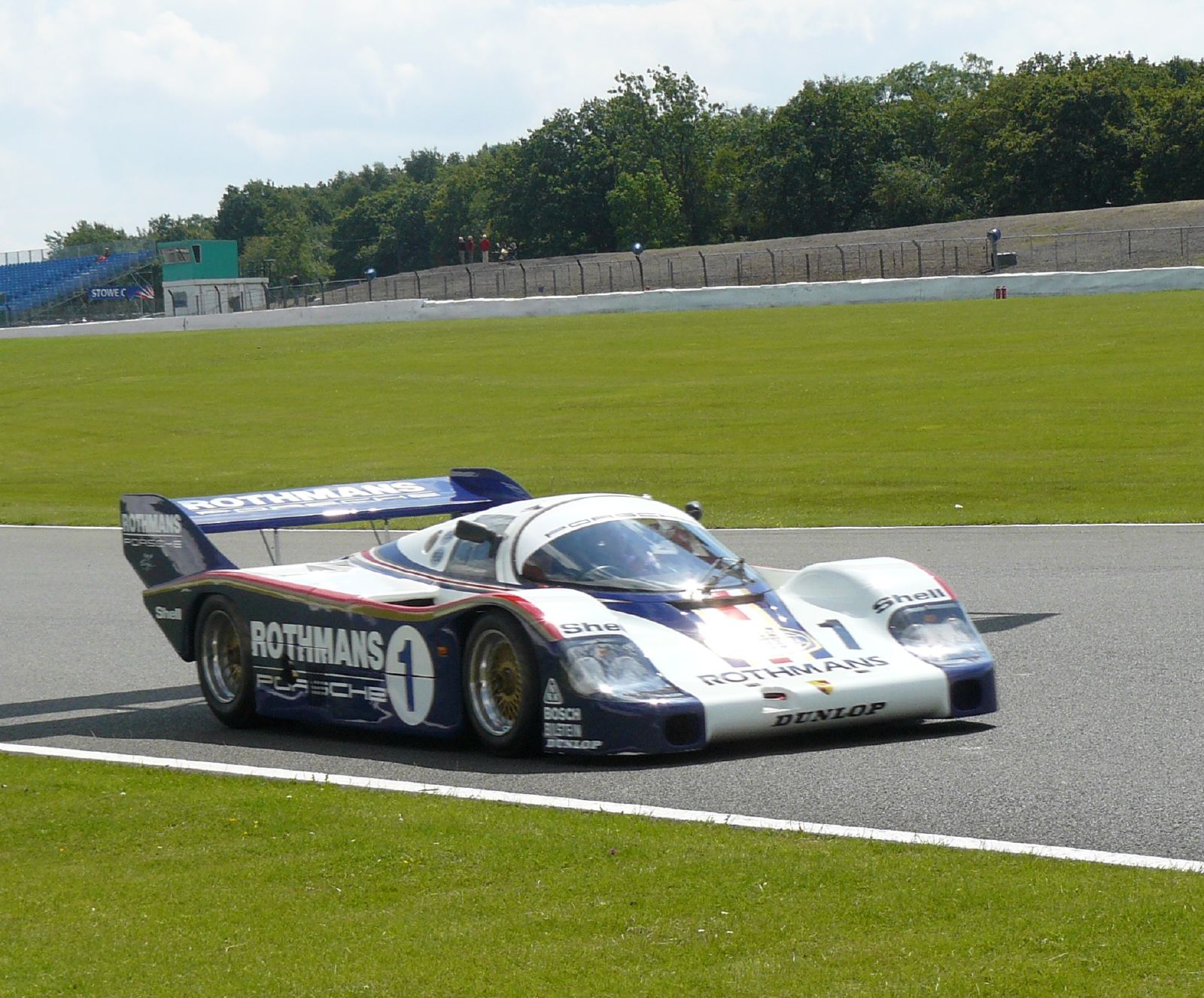 A Porsche 956 at the Silverstone Classic